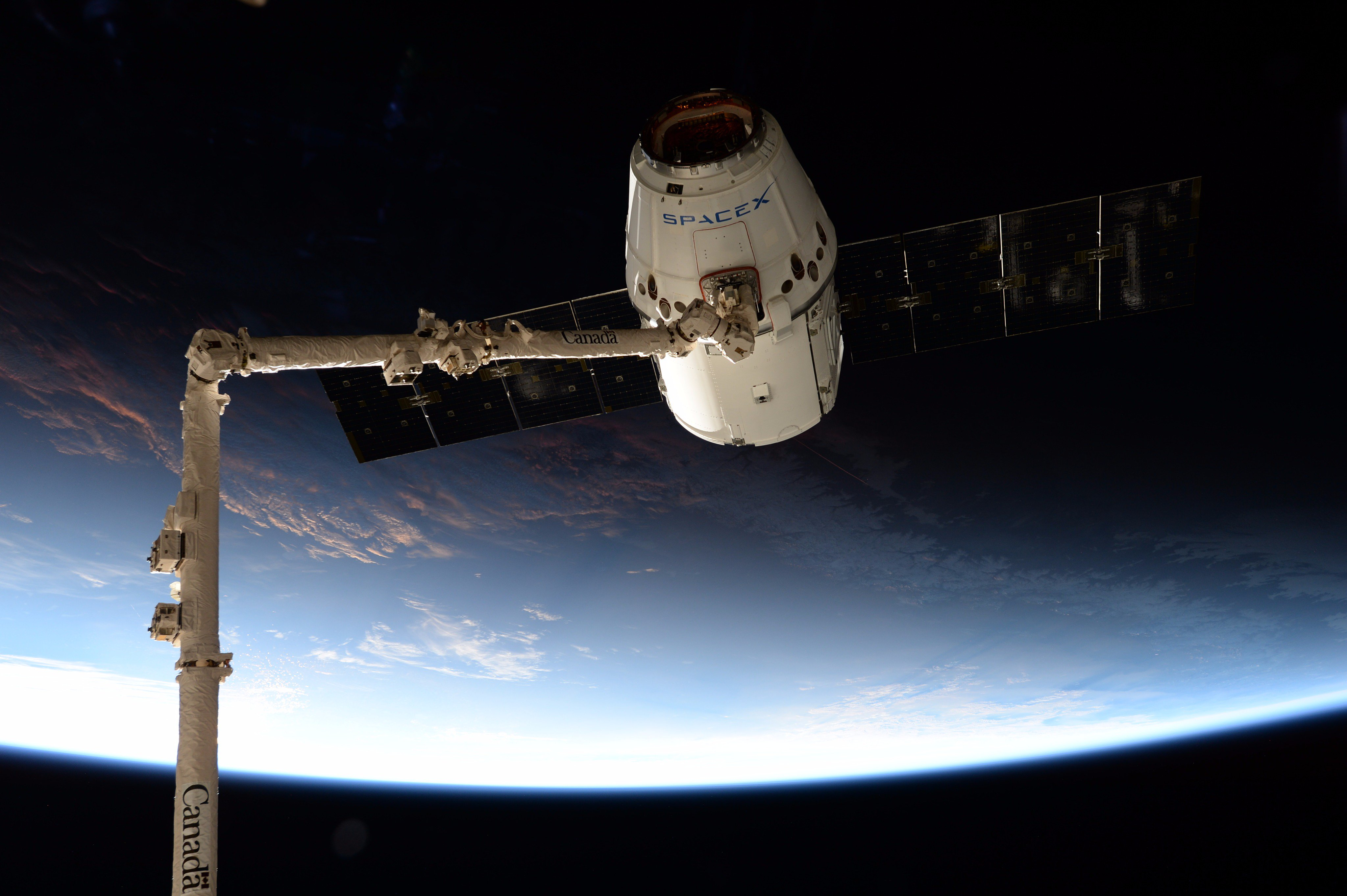 Dragon sunrise! Beautiful scene as the @csa_asc robot arm moves the @SpaceX #Dragon towards the @Space_Station underside berthing port.